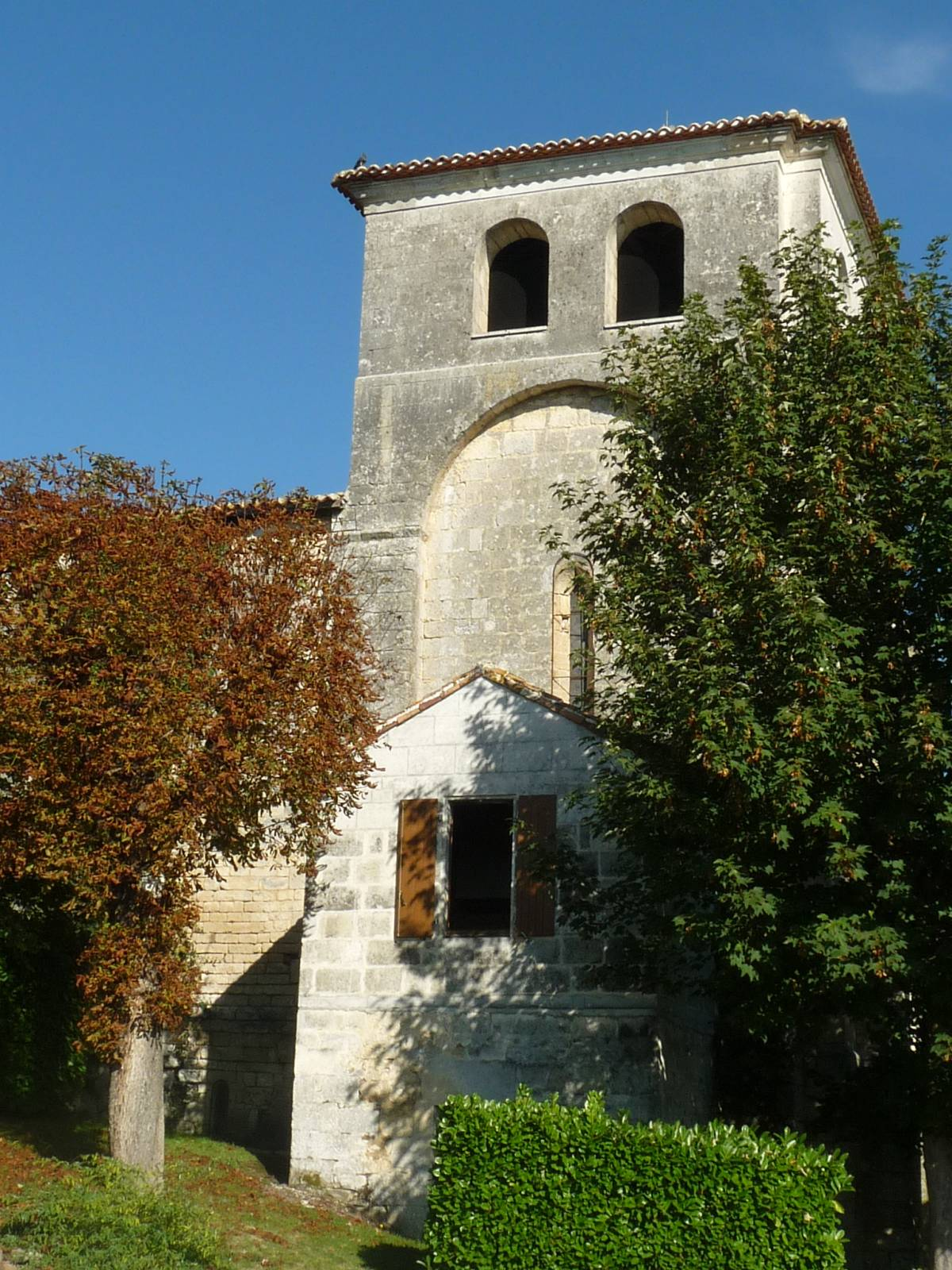 church of Rougnac, Charente, SW France